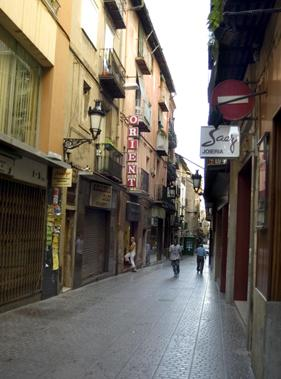 Berga's principal street.